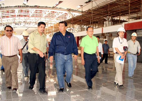 Senator Franklin Drilon tours the interior of the Iloilo International Airport while it was under construction. The original caption is as follows: “ILOILO AIRPORT INSPECTION: Liberal Party President Sen. Franklin M. Drilon inspects the construction of the P6.2 billion Iloilo Airport during his visit to his home province over the weekend. The new airport, sprawled in a 184-hectare site between the towns of Cabatuan and Sta. Barbara about 19 kilometers north of Iloilo City, will begin operations in March 2007. Photo also shows (from left) Atty. Rene Villa, Engr. Eduardo Mangalili and Gov. Neil Tupas.”